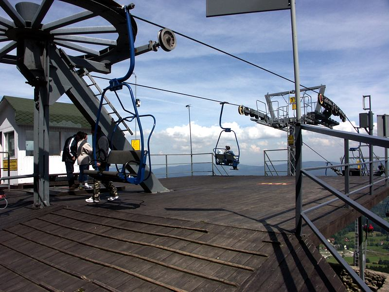 Cable car on Czarna Góra, top station (Śnieżnik Mountains, Sudetes, Poland).